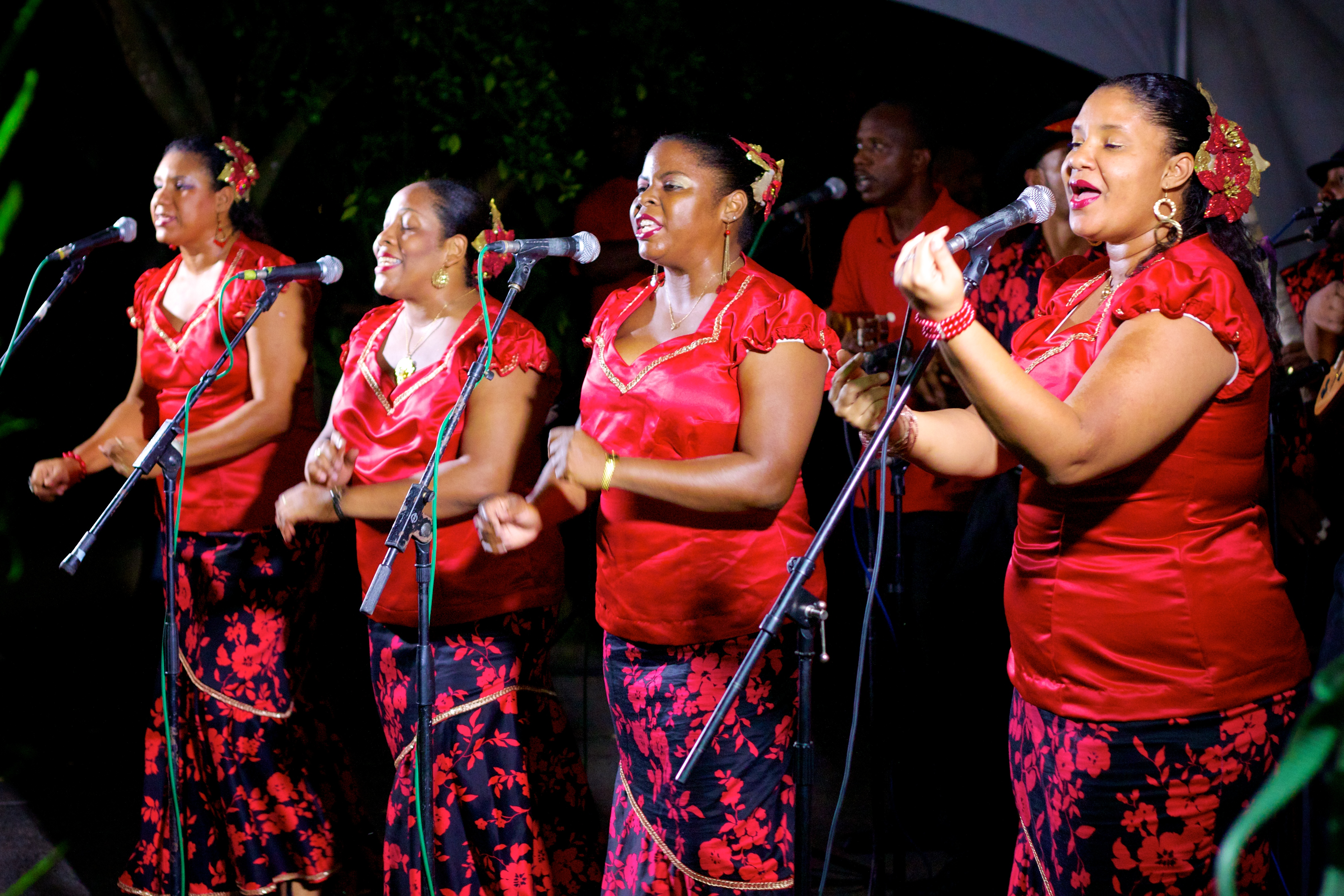 Parang party in Valsayn.